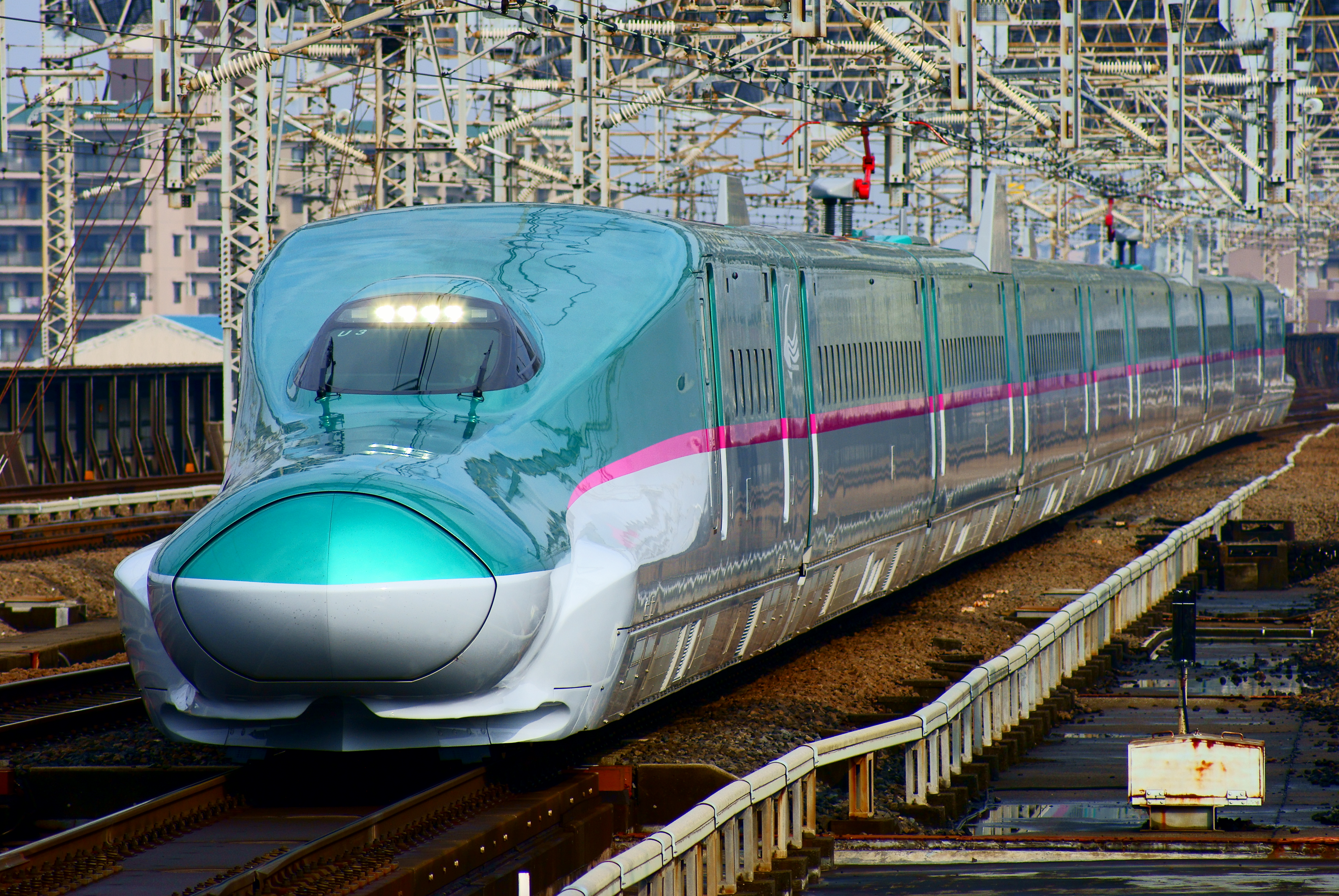 JR East E5 series shinkansen set U3 approaching Omiya Station on an up Hayabusa service